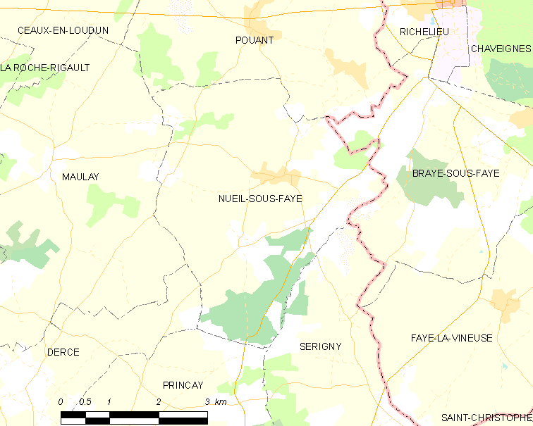 Map of French municipality Nueil-sous-Faye